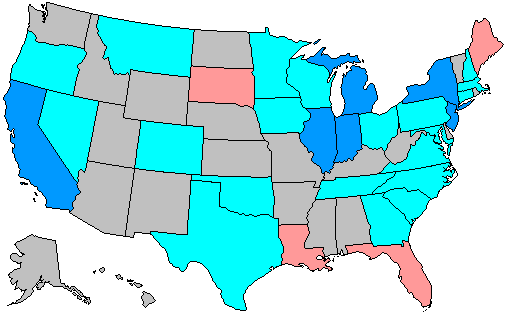 Summary of party change of U.S. house seats in the 1974 House election. Stripes indicate a tie between the gains of two or more parties. Legend: 6+ Democratic seat pickup 3-5 Democratic seat pickup 1-2 Democratic seat pickup 1-2 Republican seat pickup 3-5 Republican seat pickup 6+ Republican seat pickup Note: years ending in 2 may have inconsistent results due to redistricting.